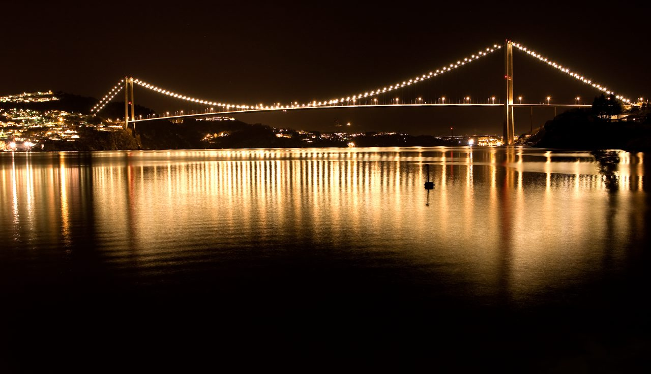 The Askøy Bridge that cross the fjord between Bergen and Askøy in Hordaland, Norway.